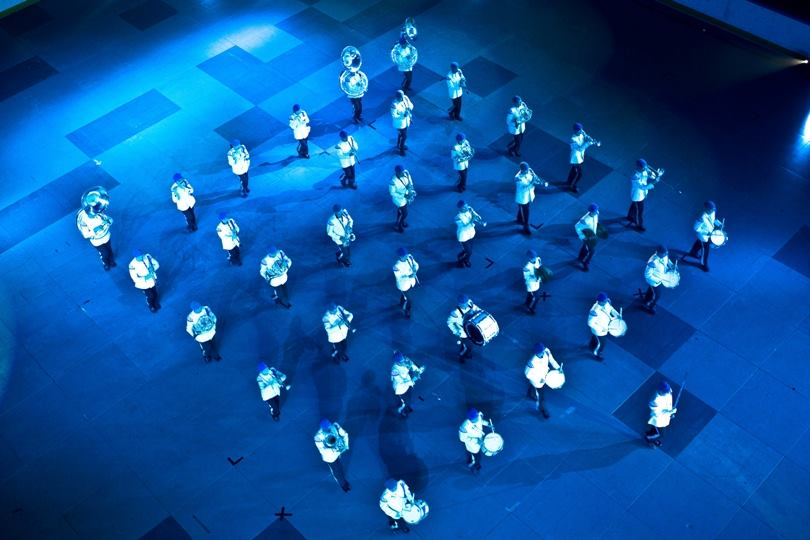 The Guards Band